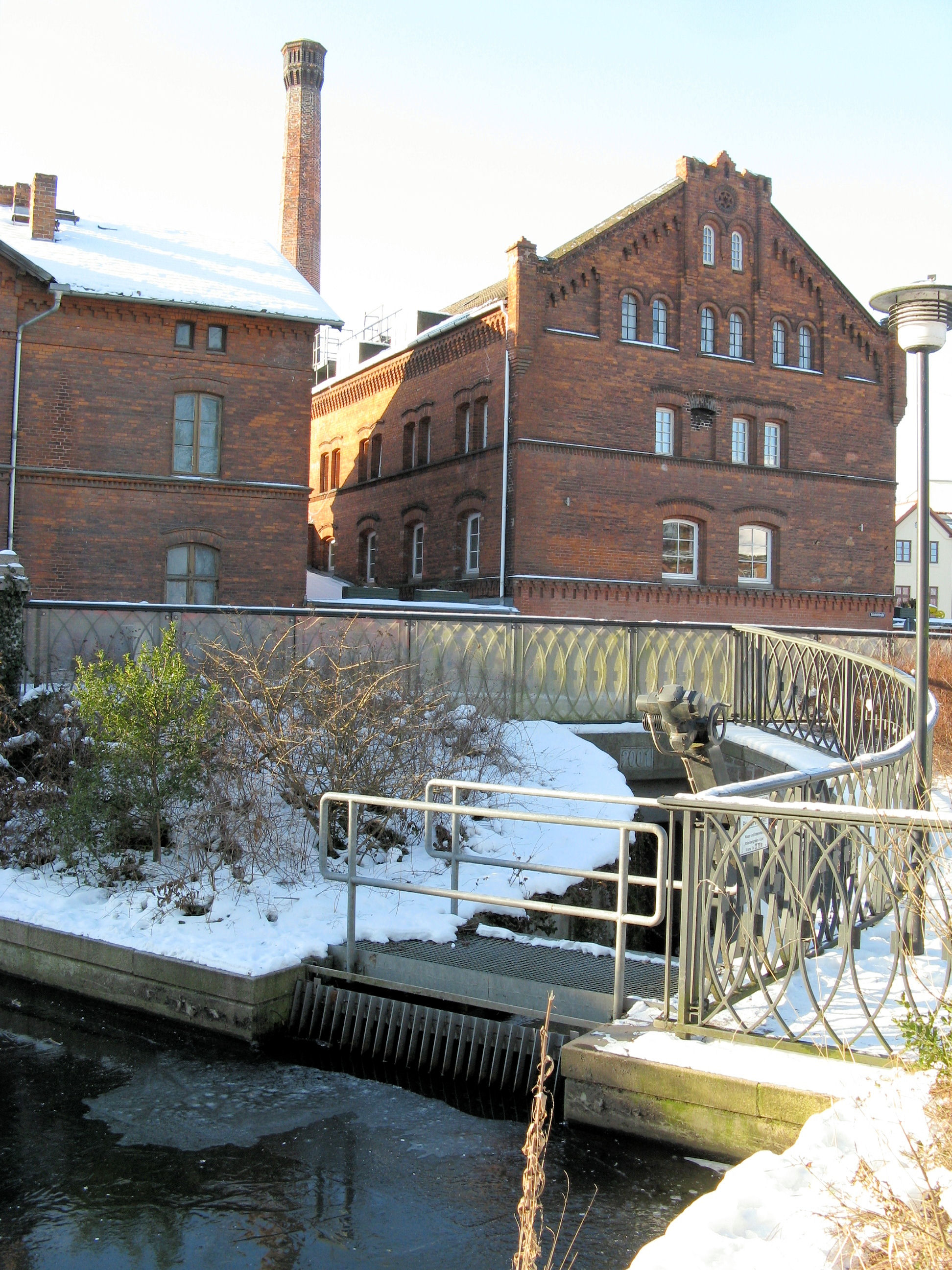 Watermill Alte Stadtmühle in Wismar, Mecklenburg-Vorpommern, Germany